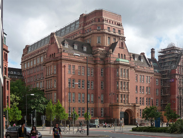 Originally built for Joseph Whitworth's company before giving the building to UMIST